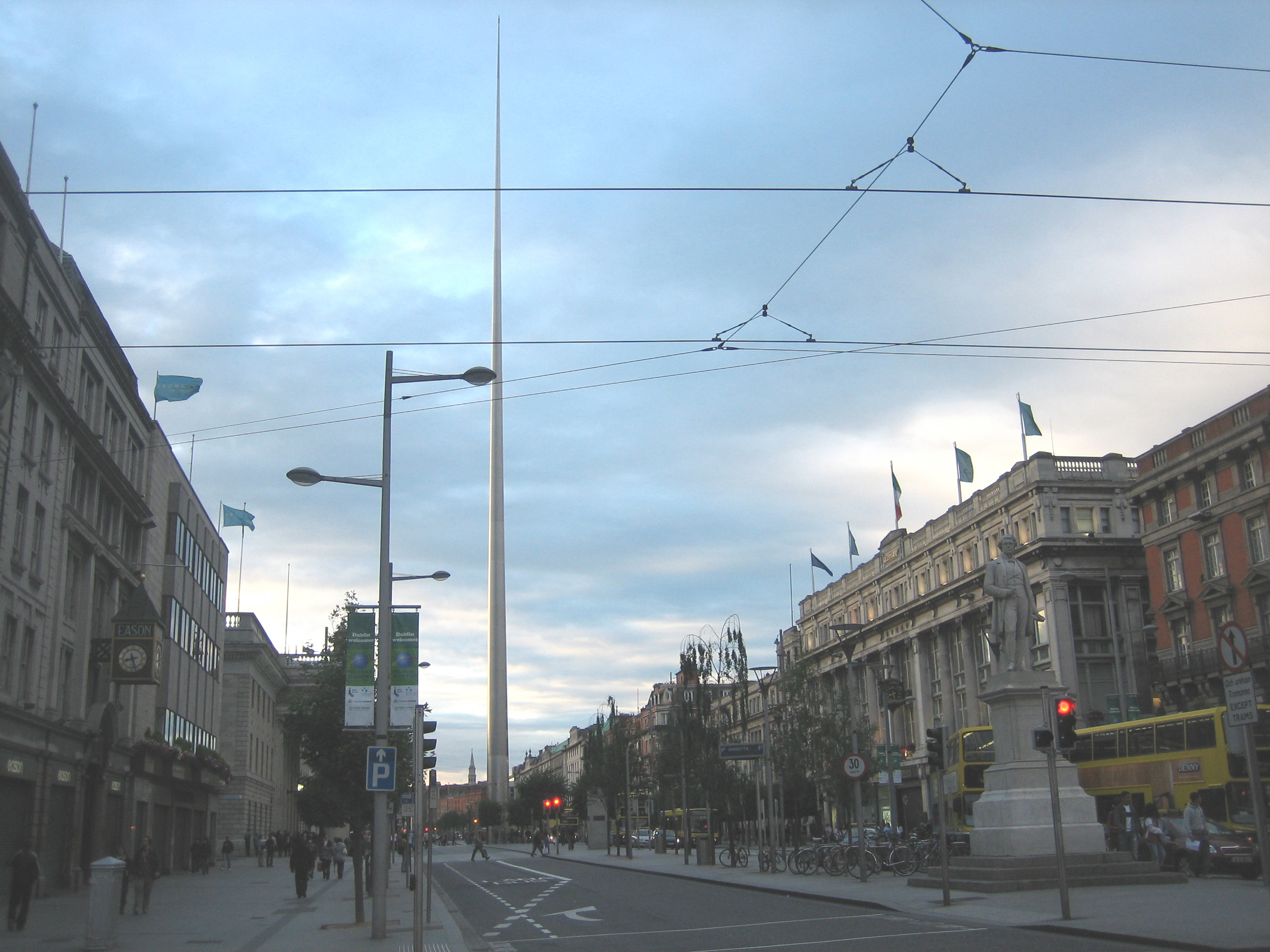 An Túr Solais / The Spire of Dublin